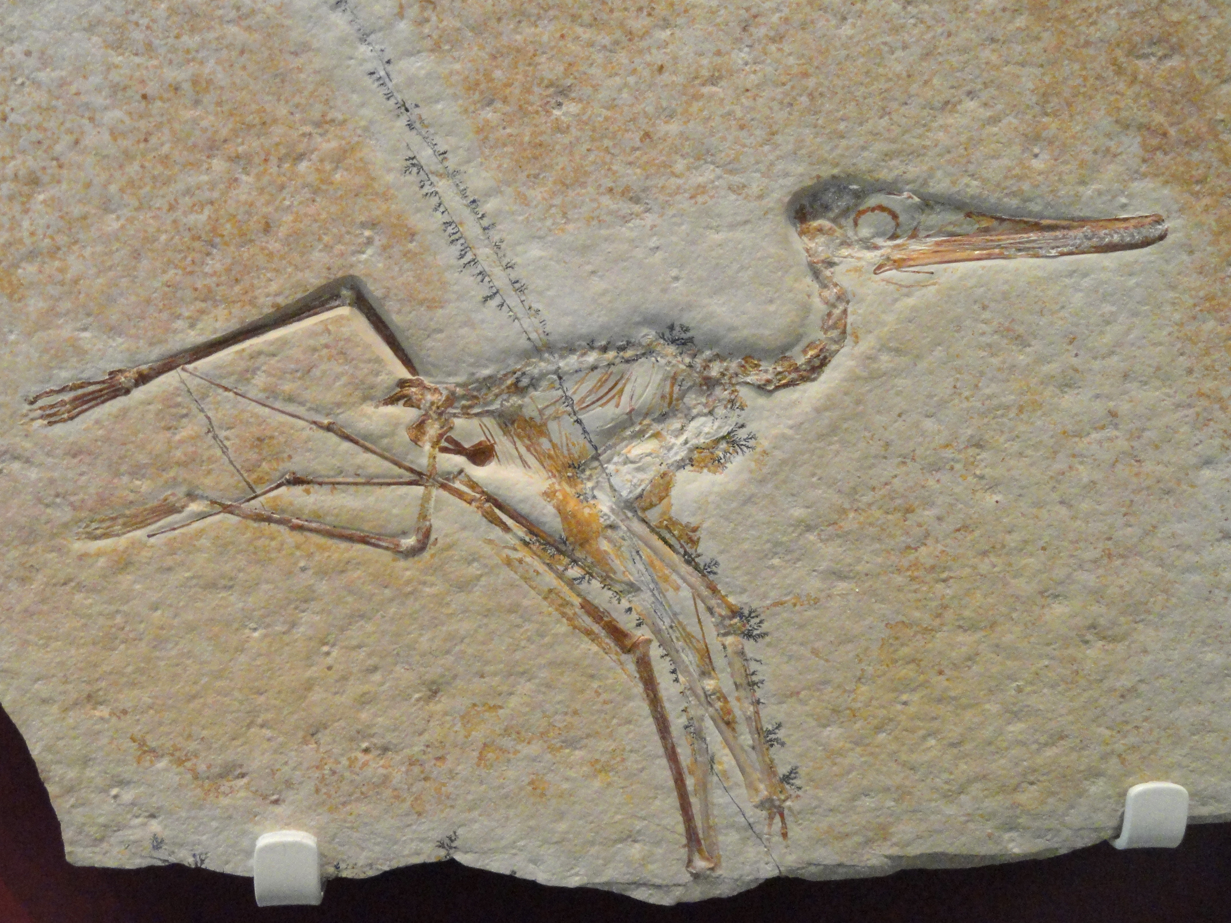 Exhibit in the Royal Ontario Museum, Toronto, Ontario, Canada. This exhibit is old enough so that it is in the public domain, and photography was permitted in the museum. I took this photograph and release it into the public domain.